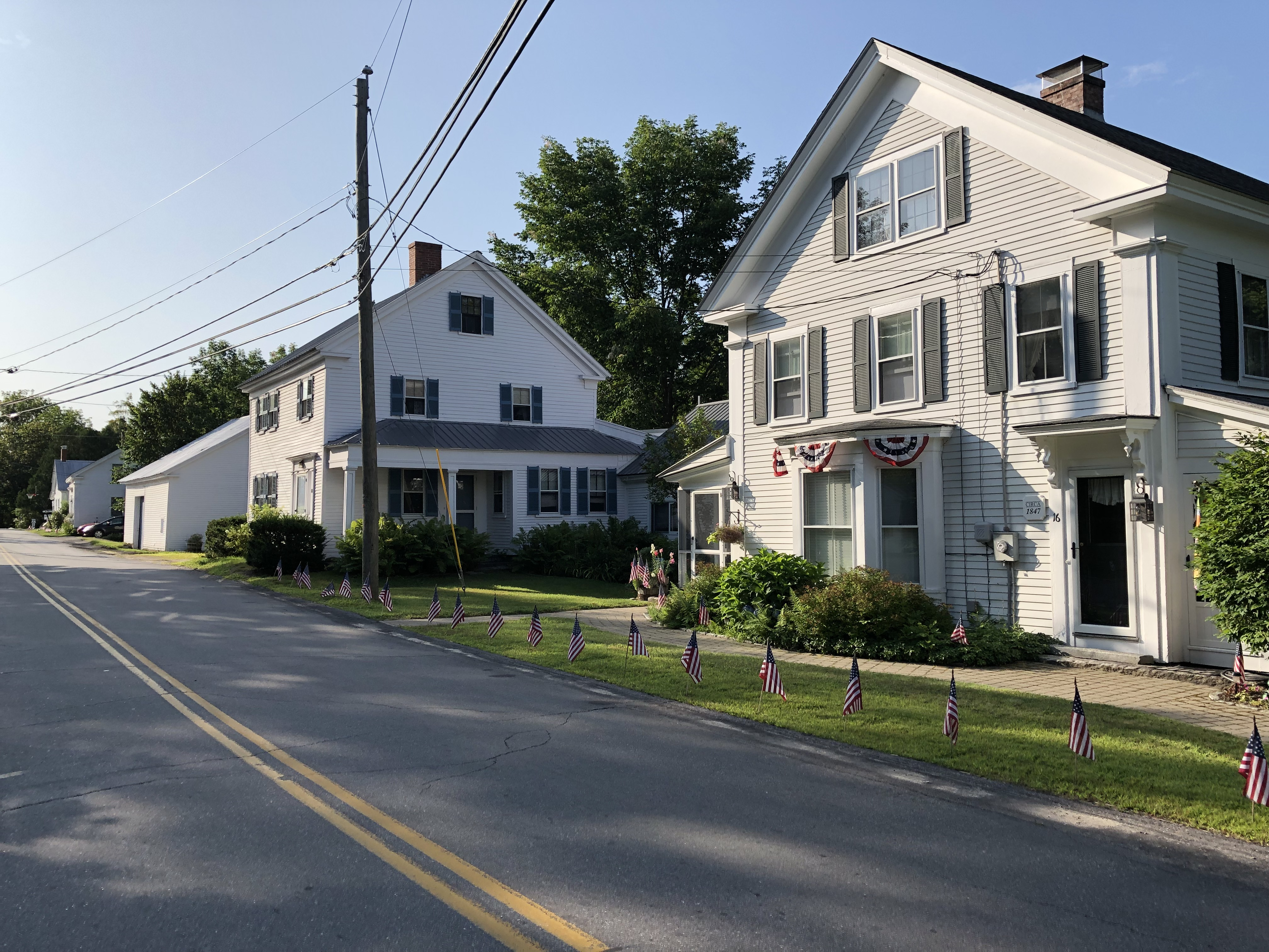 Houses in the village of Freedom, New Hampshire